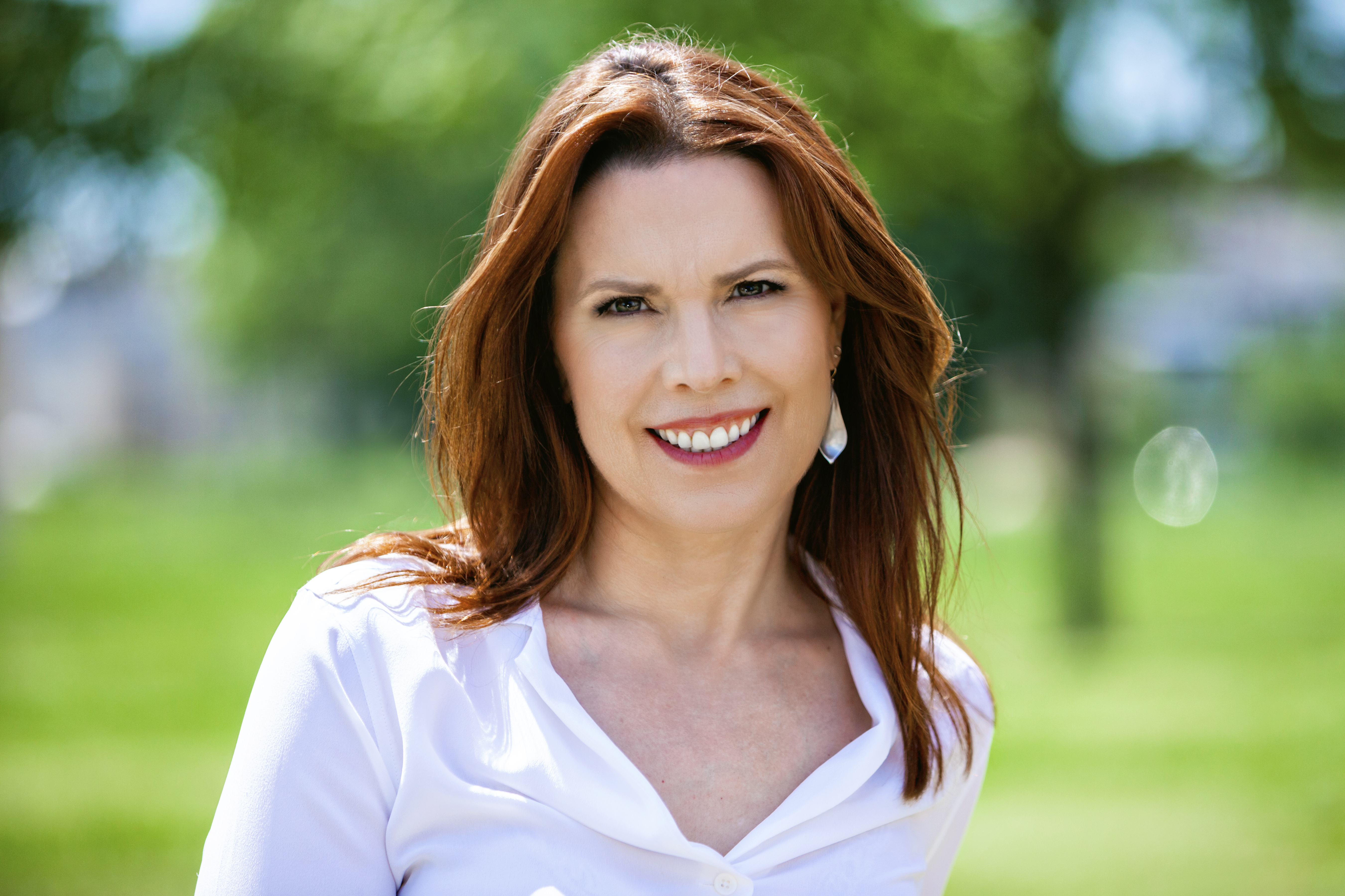 Annie Duke, Professional Speaker